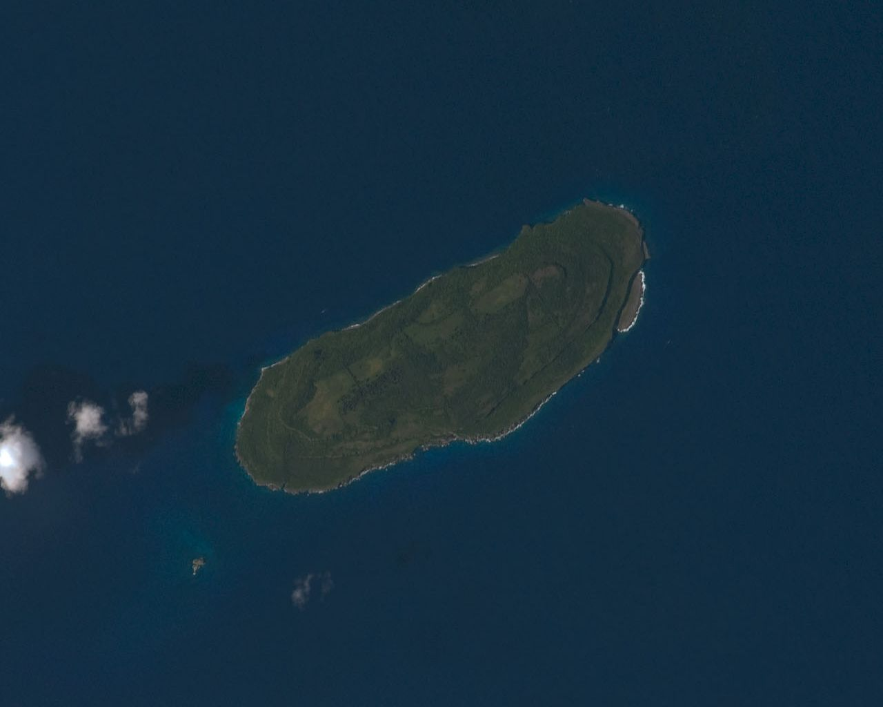 Aguijan Island, one of the Northern Mariana Islands